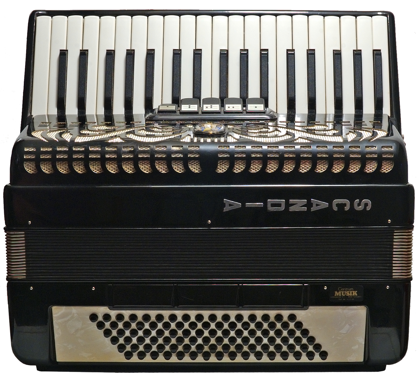 A black piano accordion with 37 tangents and 96 bass buttons (Stradella bass setup)